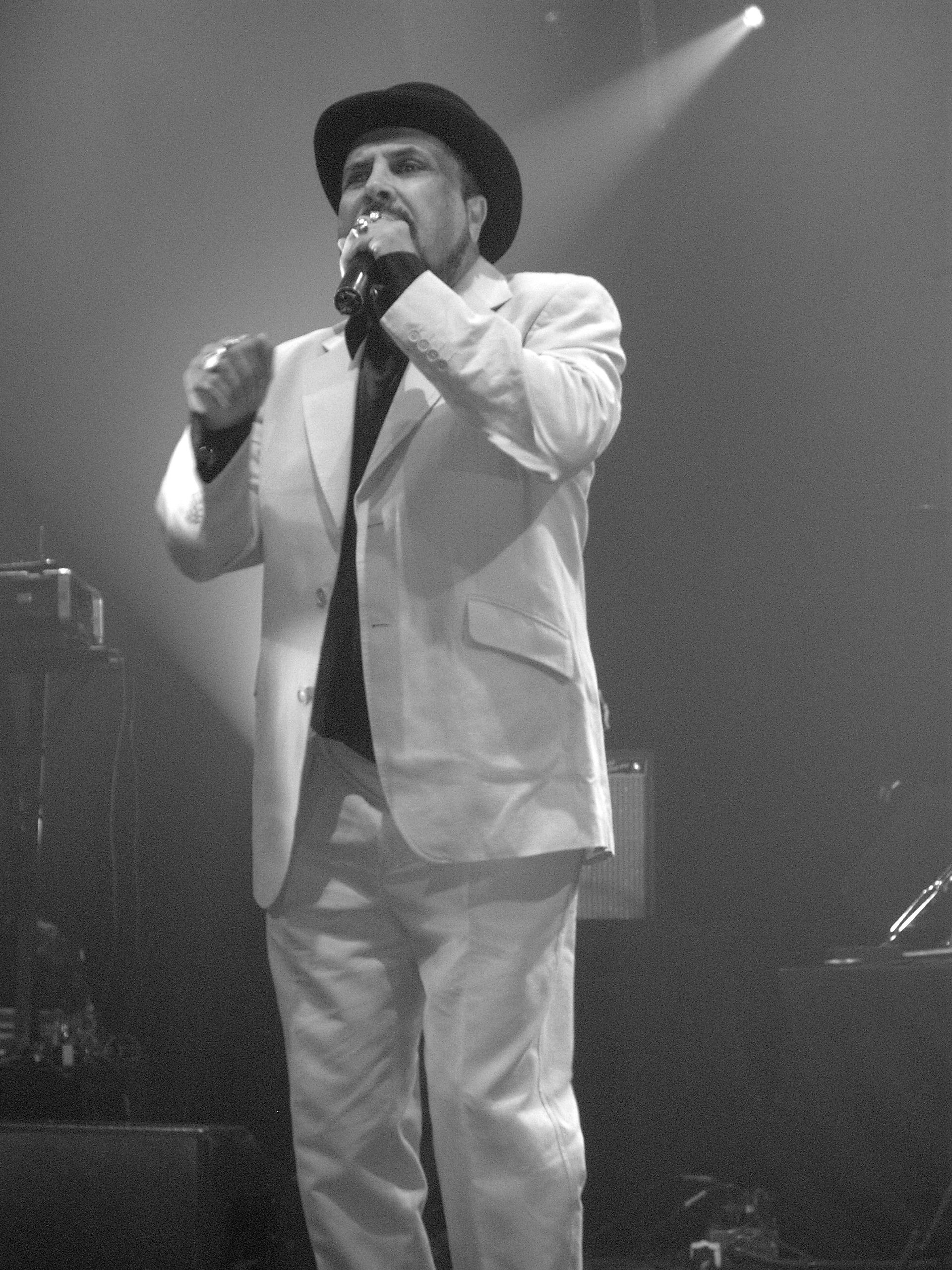 The singer Dennis Alcapone at a concert in Choisy Le Roy (France) - 2006, october 7